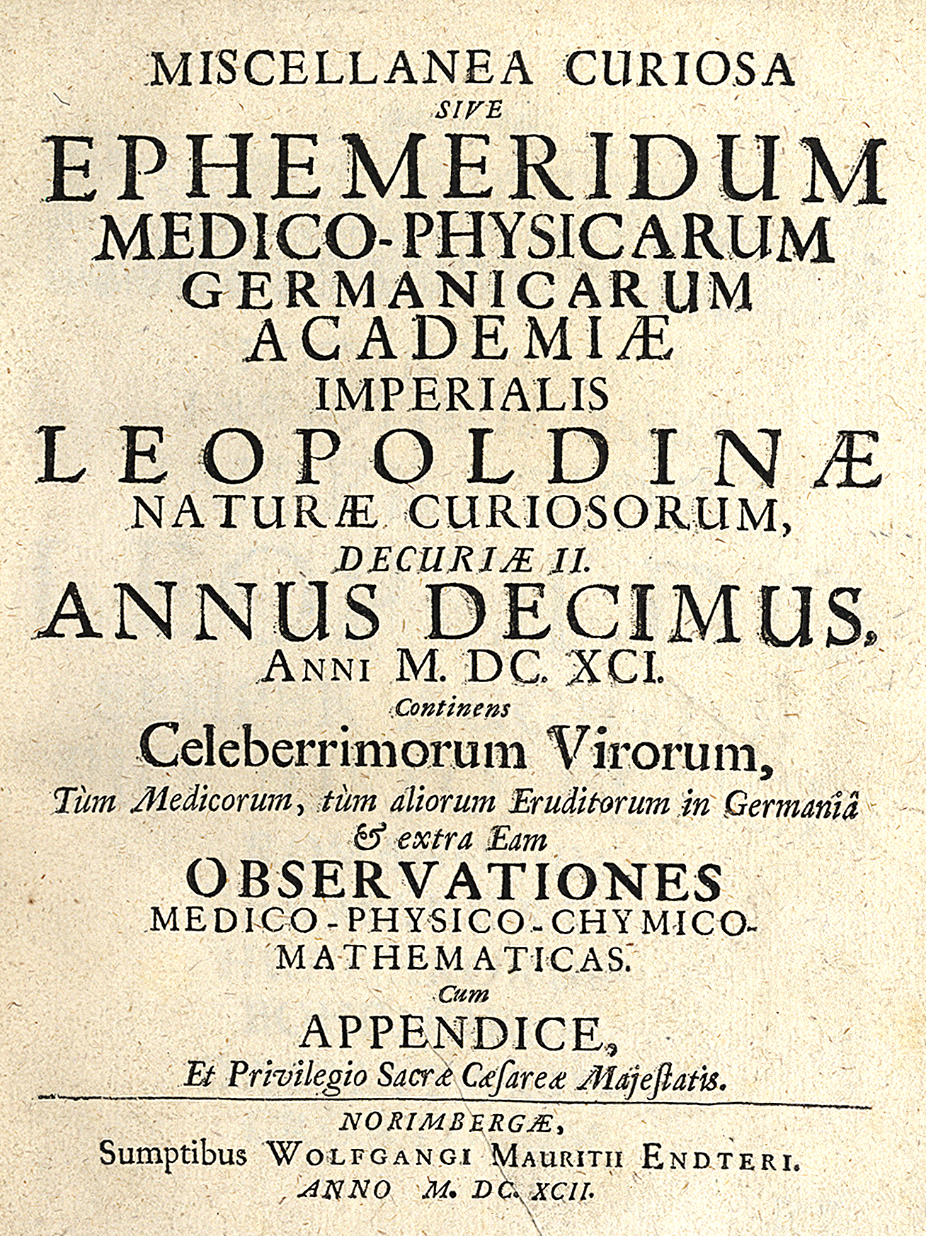 Title page of Miscellanea Curiosa. Decuria II, Annus X (1692). The Miscellanea Curiosa were published by the Academia Naturae Curiosorum since 1670.